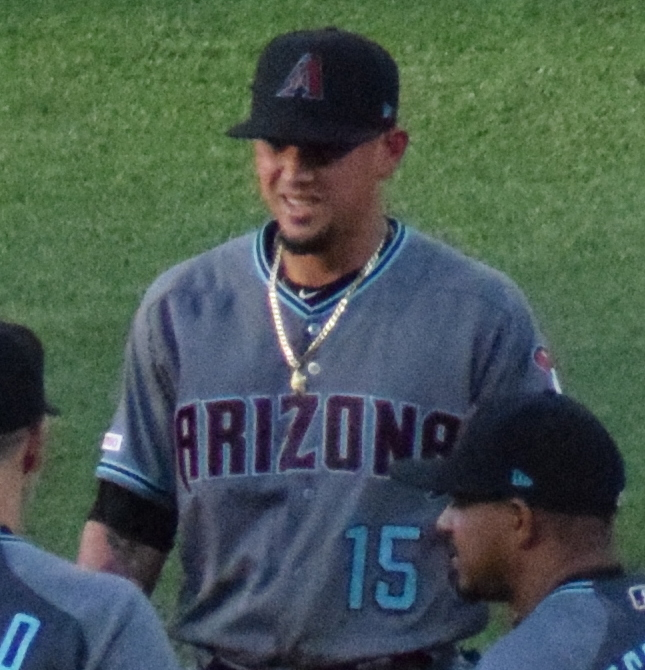 Members of the Arizona Diamondbacks including Kevin Cron, Eduardo Escobar, Jarrod Dyson, Torey Lovullo, Nick Ahmed and Ildemaro Vargas meet on the infield during a 2019 game at Citizens Bank Park in Philadelphia.